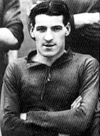 Image is from Liverpool teamphoto in 1910